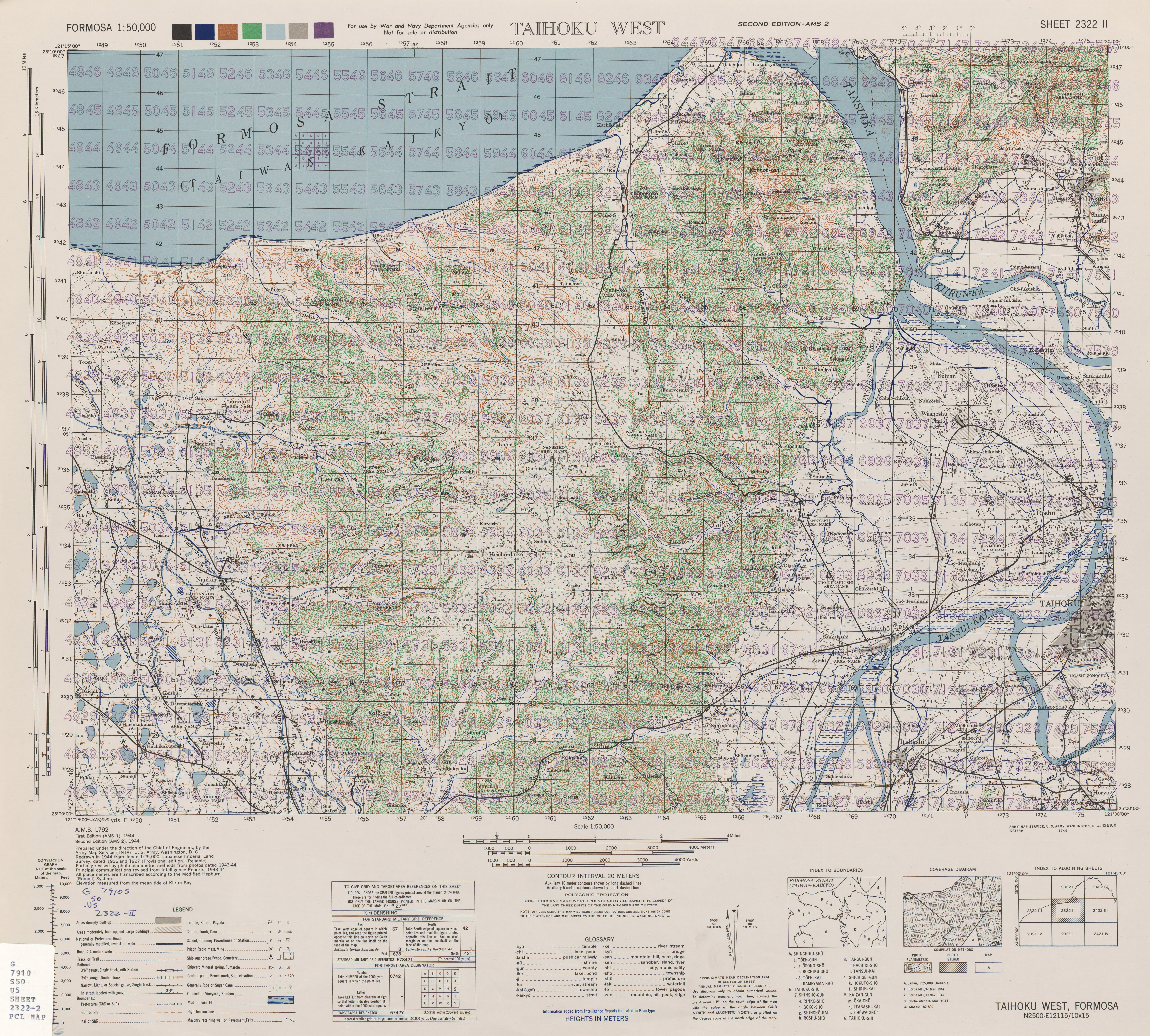 Map from Formosa (Taiwan) 1:50,000 AMS Series L792